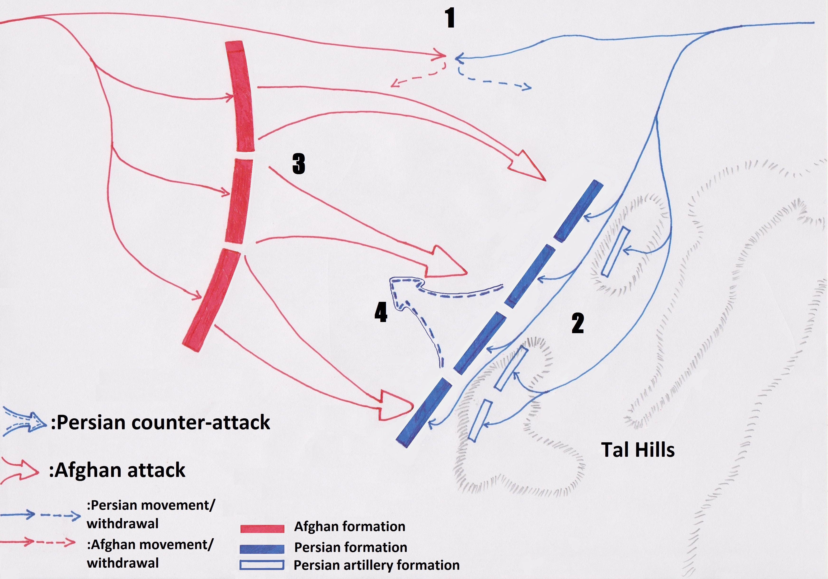 Battle diagram.